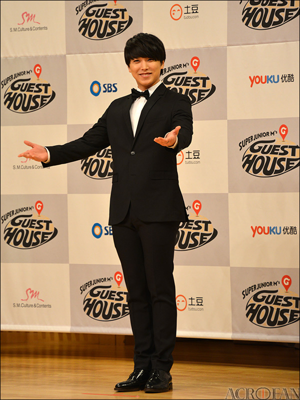 Super Junior's Sungmin.조선말: 슈퍼주니어 성민.